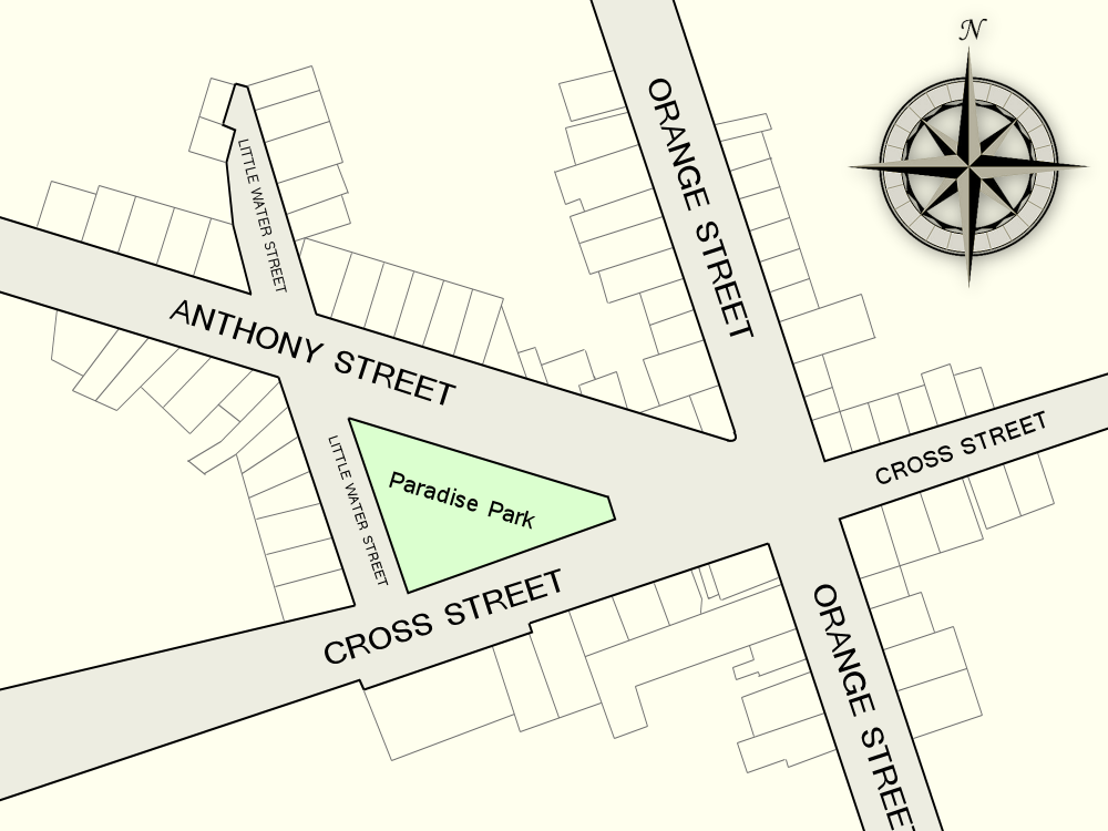 The Five Points quarter in 1850.